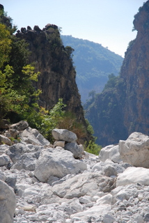 Viros Gorge, Taygetos, Peleponese, Greece